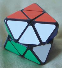 The Skewb Diamond, slightly twisted to show its plane of rotation.